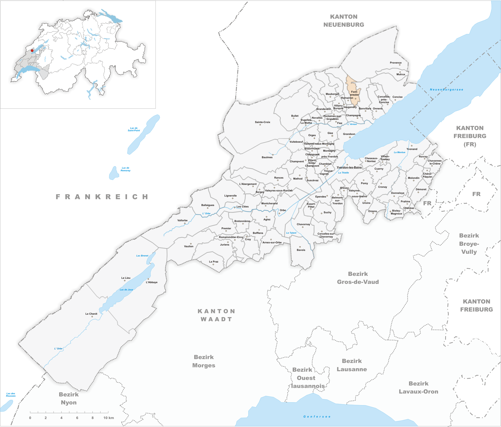 Municipality Fontanezier